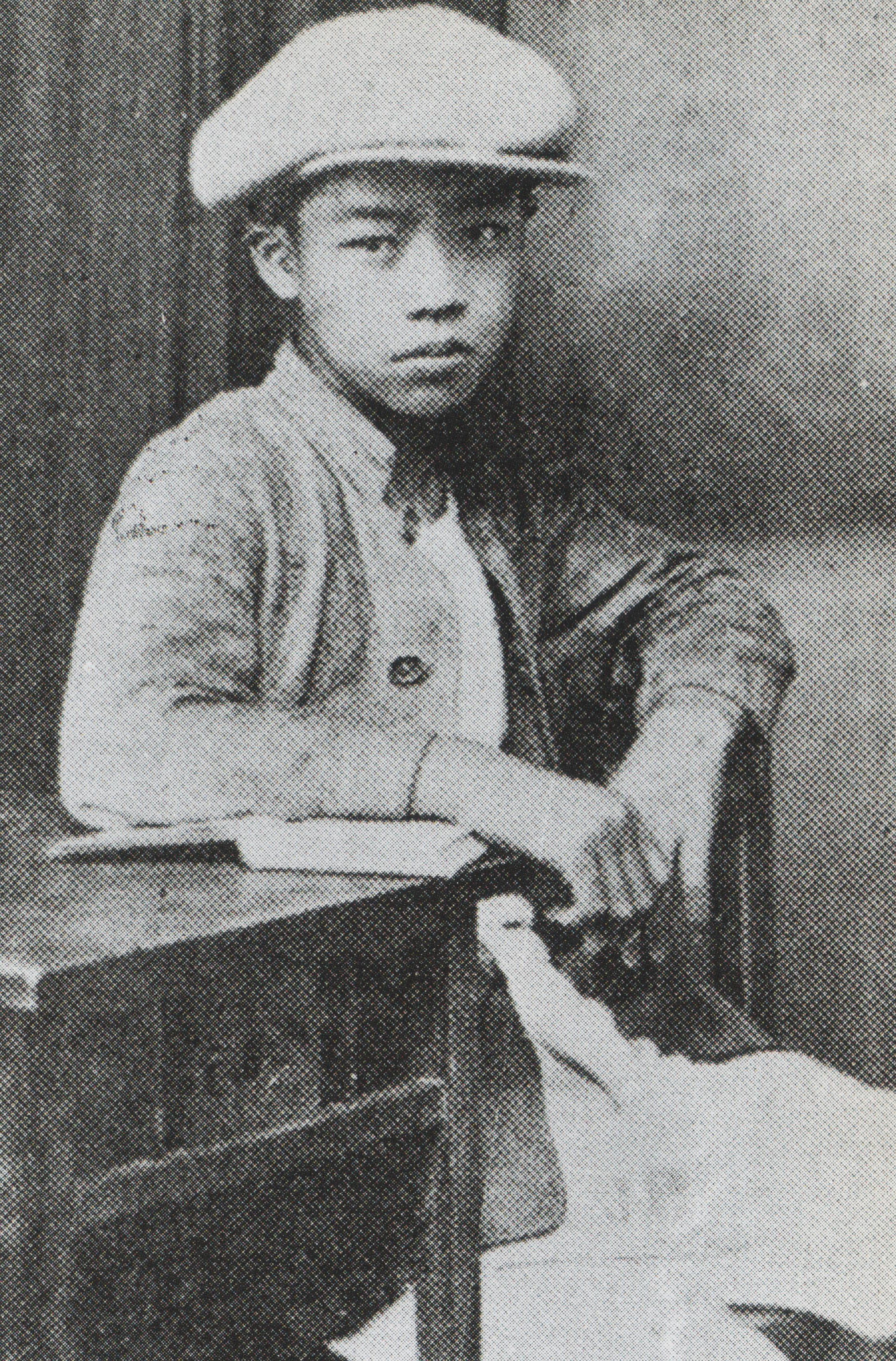 Seichō Matsumoto, 1925, 16 years old.